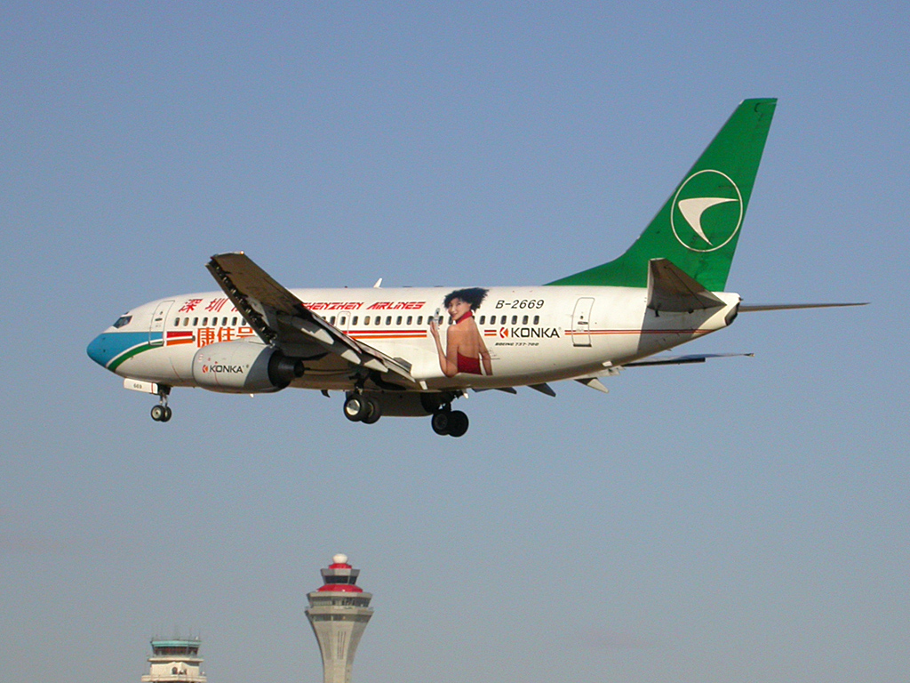 Shenzhen Airlines' Boeing 737 in Beijing. With Maggie Cheung painted on the body to advocate Konka.